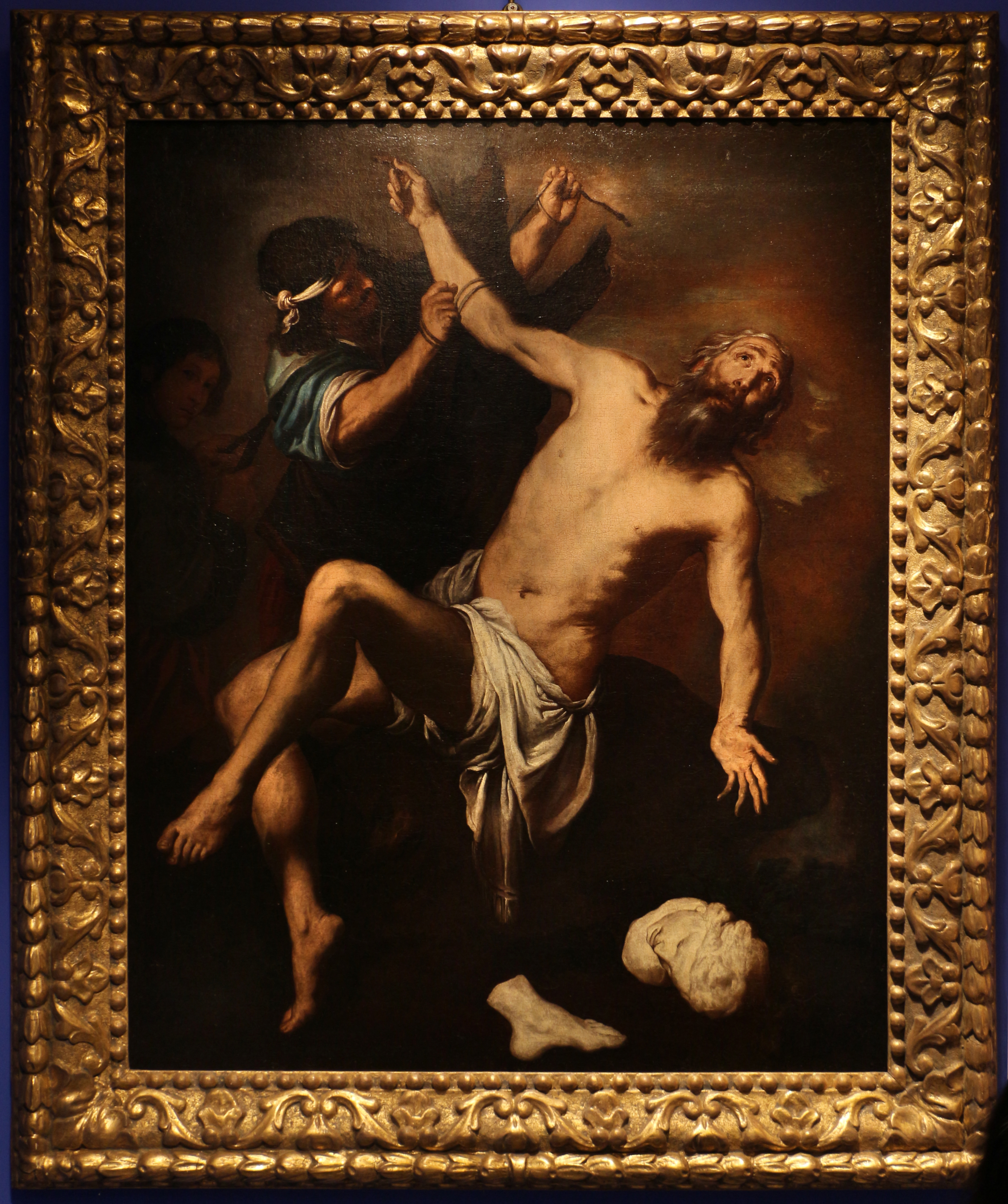 Courtesy of La Pinacoteca